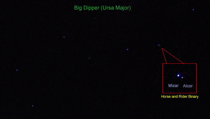 Author: Shawn E. Gano